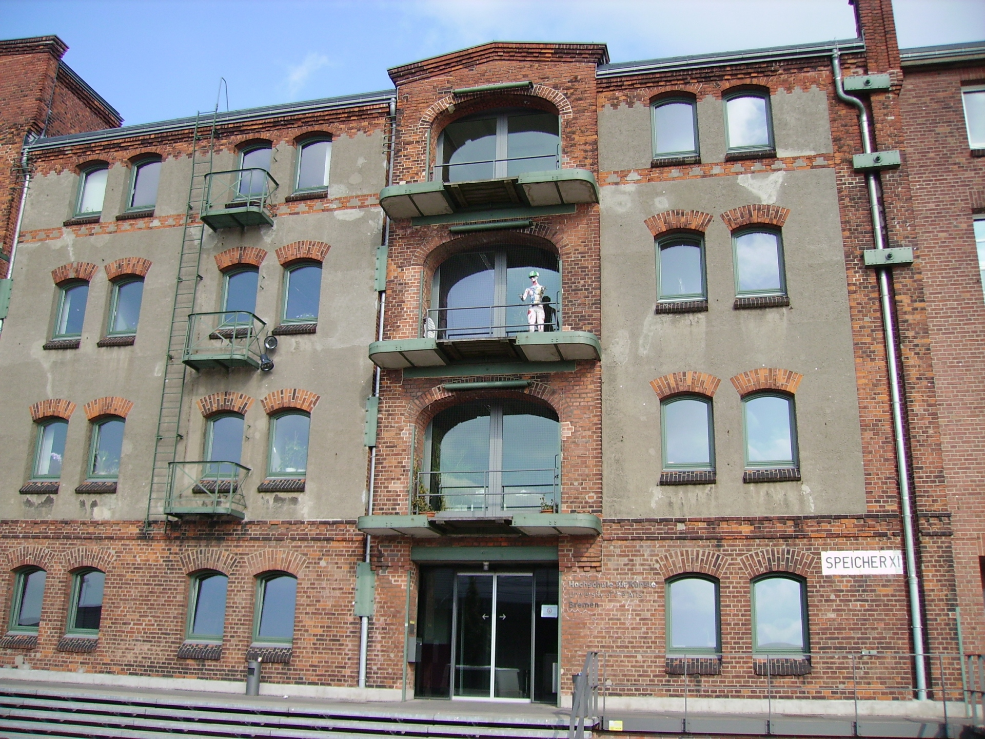 The University of the Arts in Bremen, located in the former warehouse "Speicher XI" in the port area